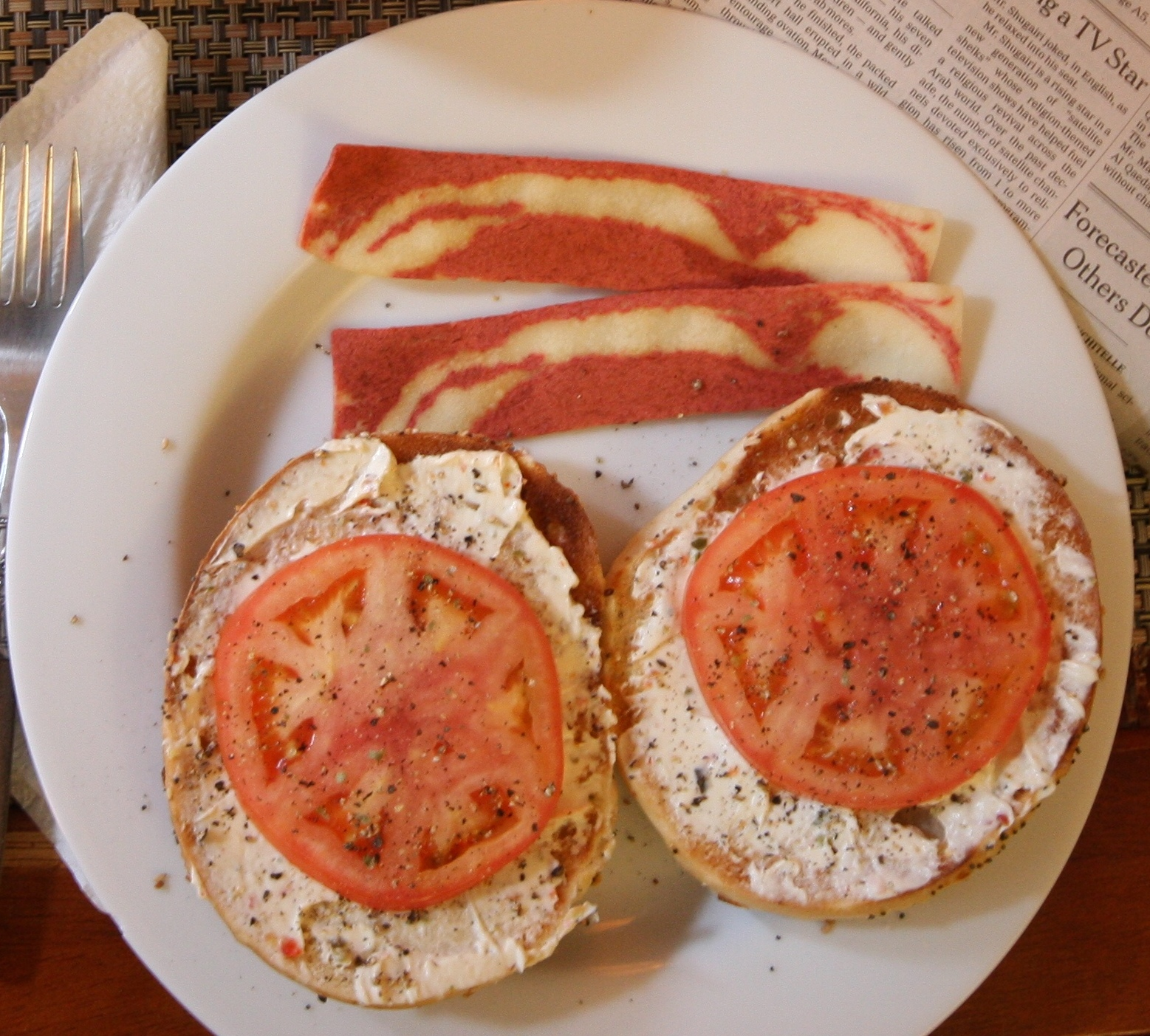 Bagels topped with tomatoes and a side of two Morningstar Veggie Bacon Strips.